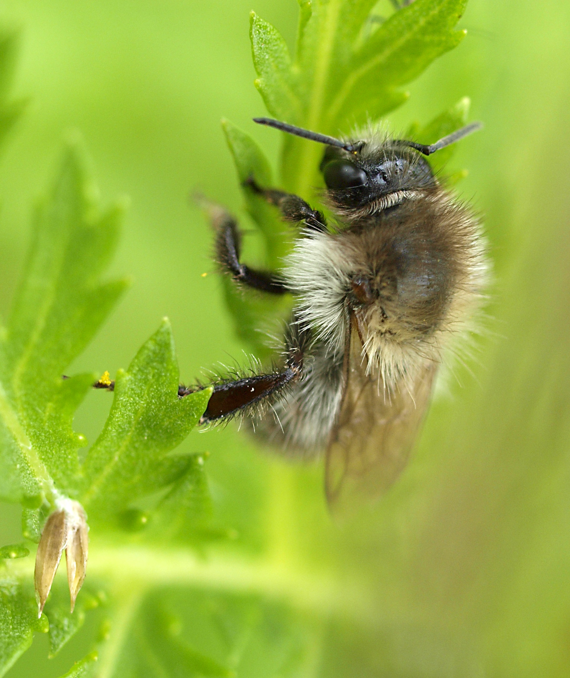 Worker bee resting. Agerhumle arbejder får sig et hvil.